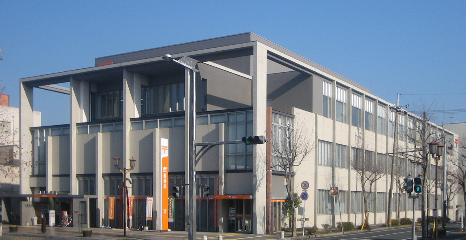 Ube post office in Yamaguchi, Japan